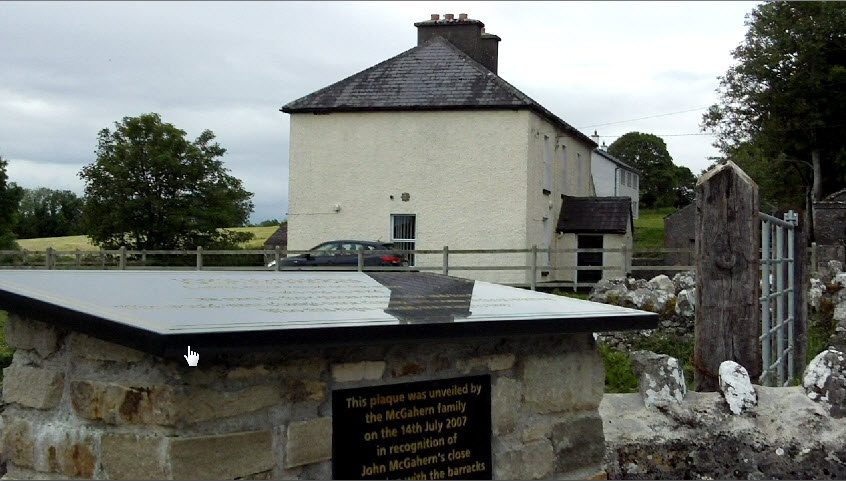 The Barracks at Cootehall, Co Roscommon, where author John McGahern lived from the age of 10 till about 17. John's first novel was called The Barracks.